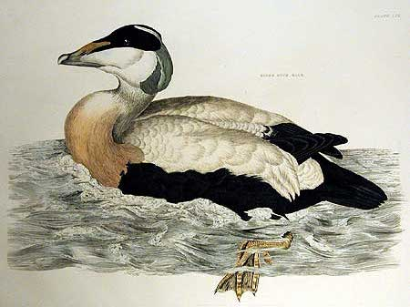 Plate from "Illustrations of British Ornithology", Published in Edinburgh, Hand-coloured etchings Male Eider Duck